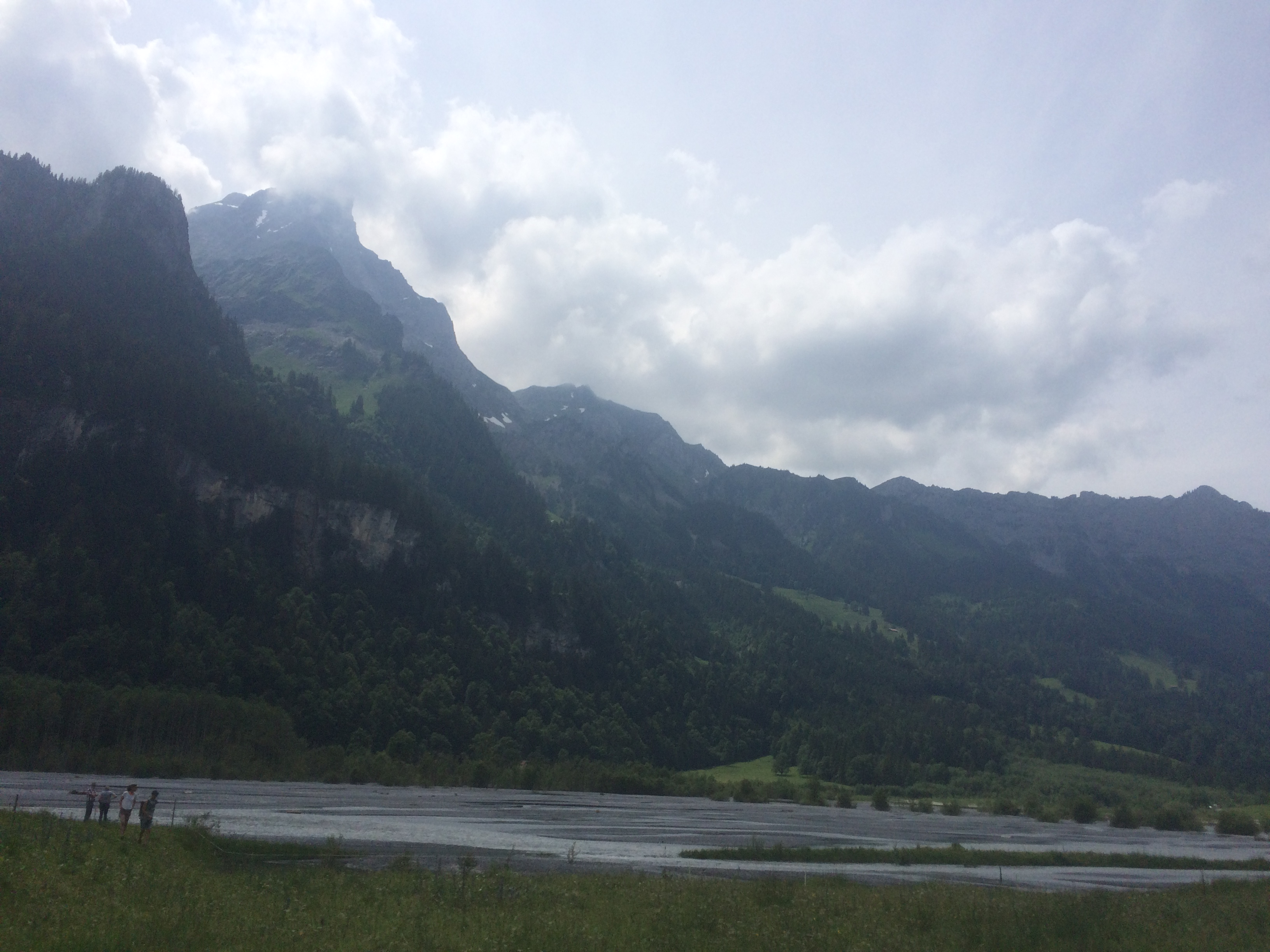 Armighorn on left, bern canton, Kiental